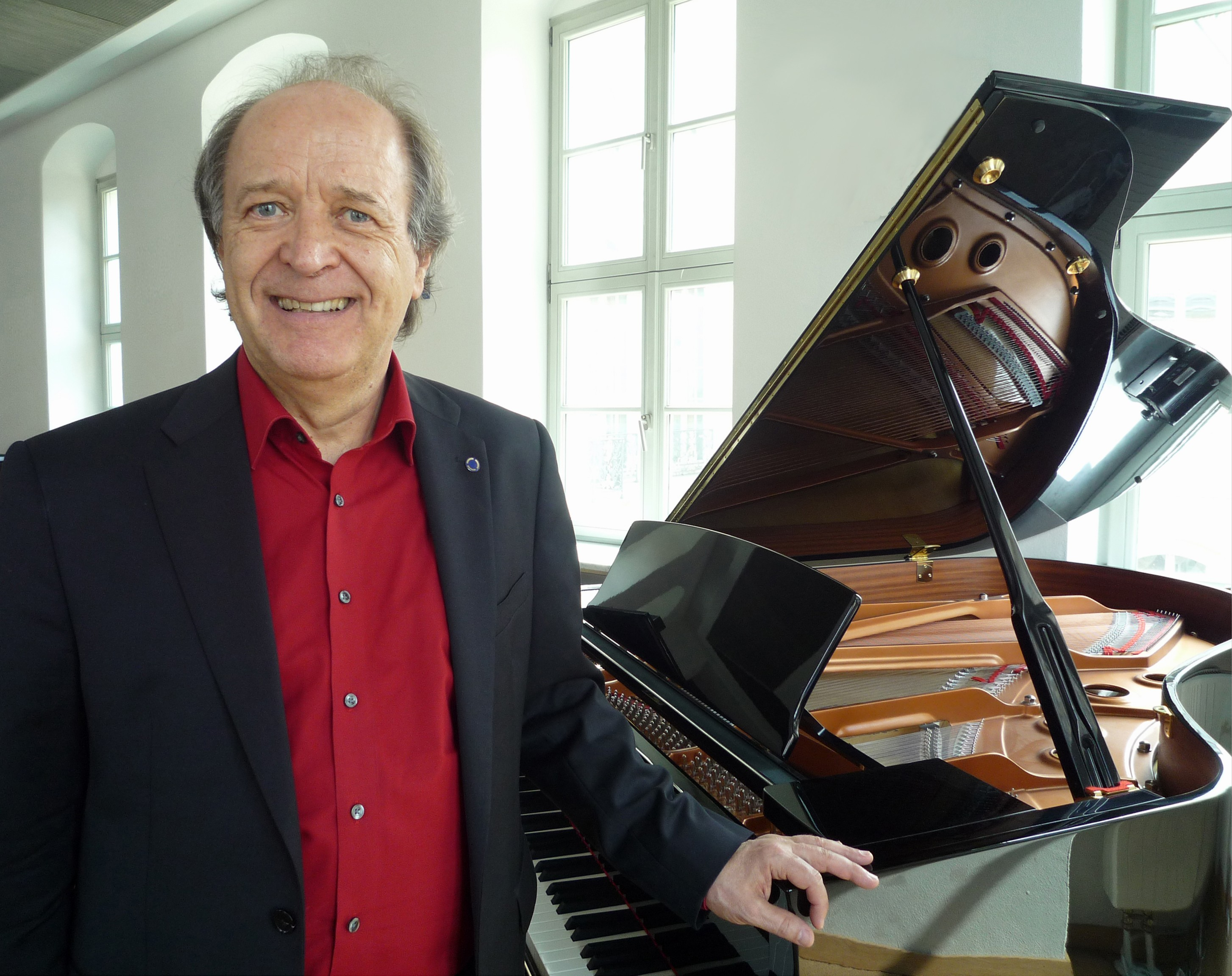 Portrait Richard Vardigans